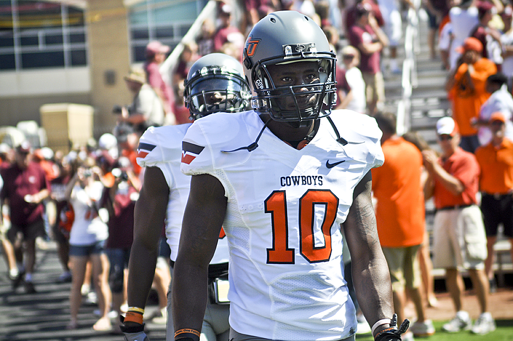 Markelle Martin enters the stadium for the 9/24/11 Oklahoma State - Texas A&M football game.